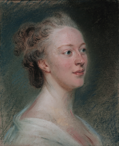 Isabelle Agneta Elisabeth van Tuyll van Serooskerken, called Belle de Zuylen, future Isabelle de Charrière pastel on paper 41,8 x 34,5 cm 1766